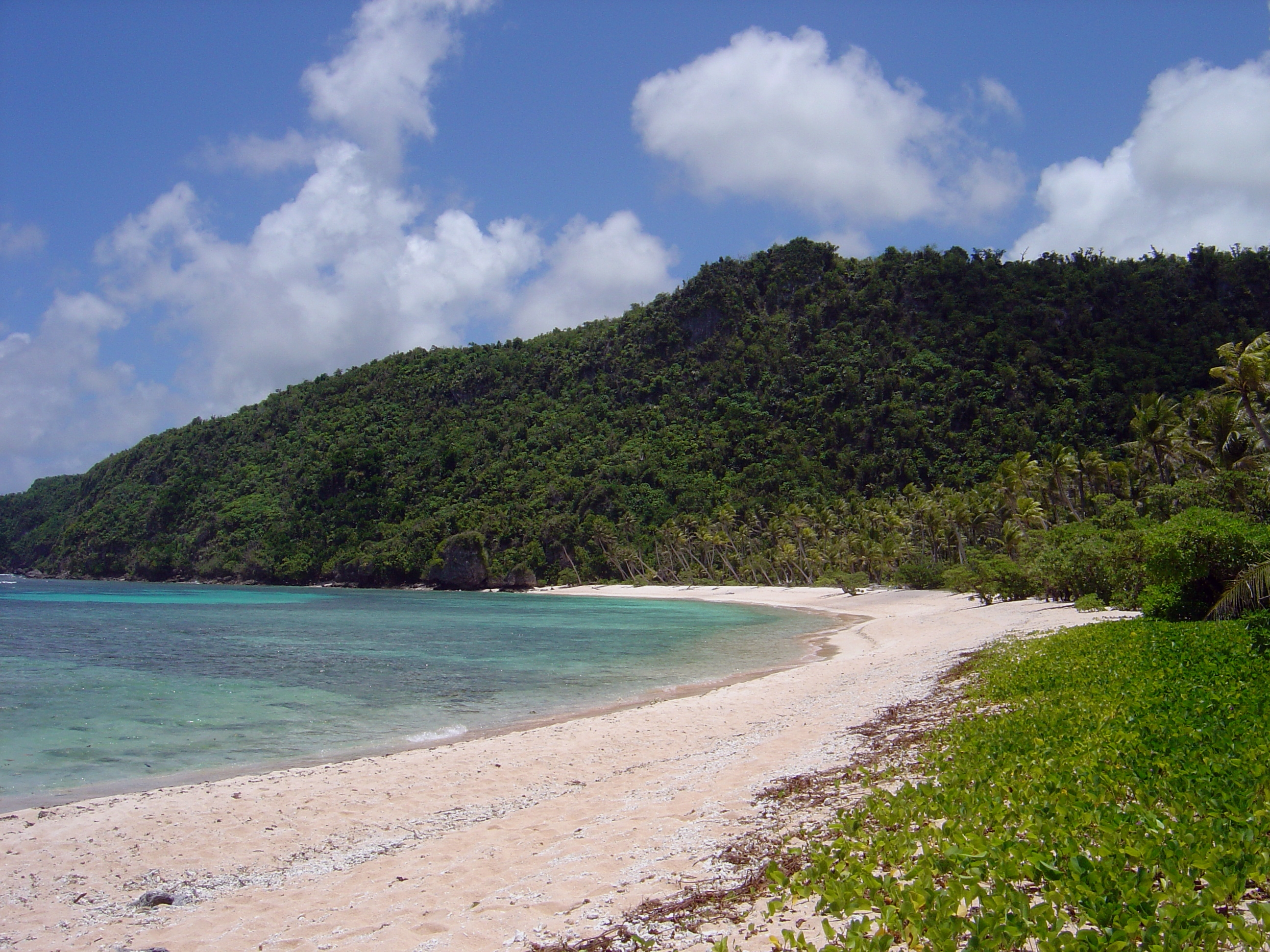 An arcuate deserted beach on Guam with calm warm inviting waters. Mariana Islands, Guam.